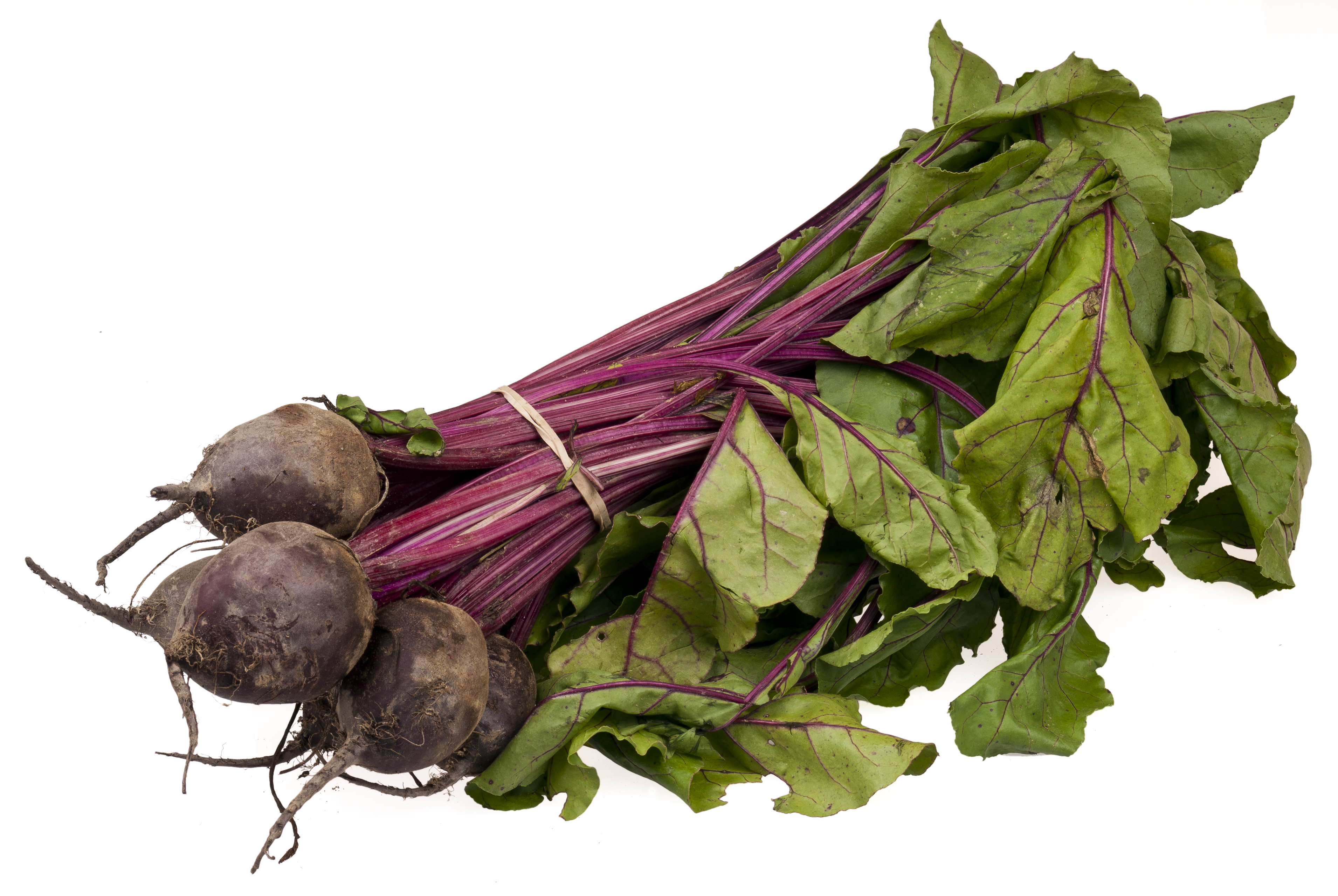 A bundle of organic beets from a local farm food co-op program.